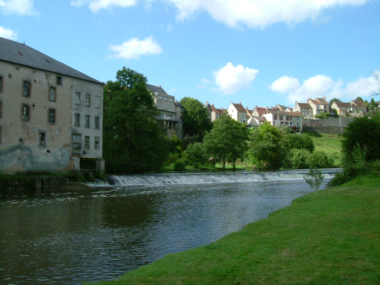 La Celle-Dunoise, mill house